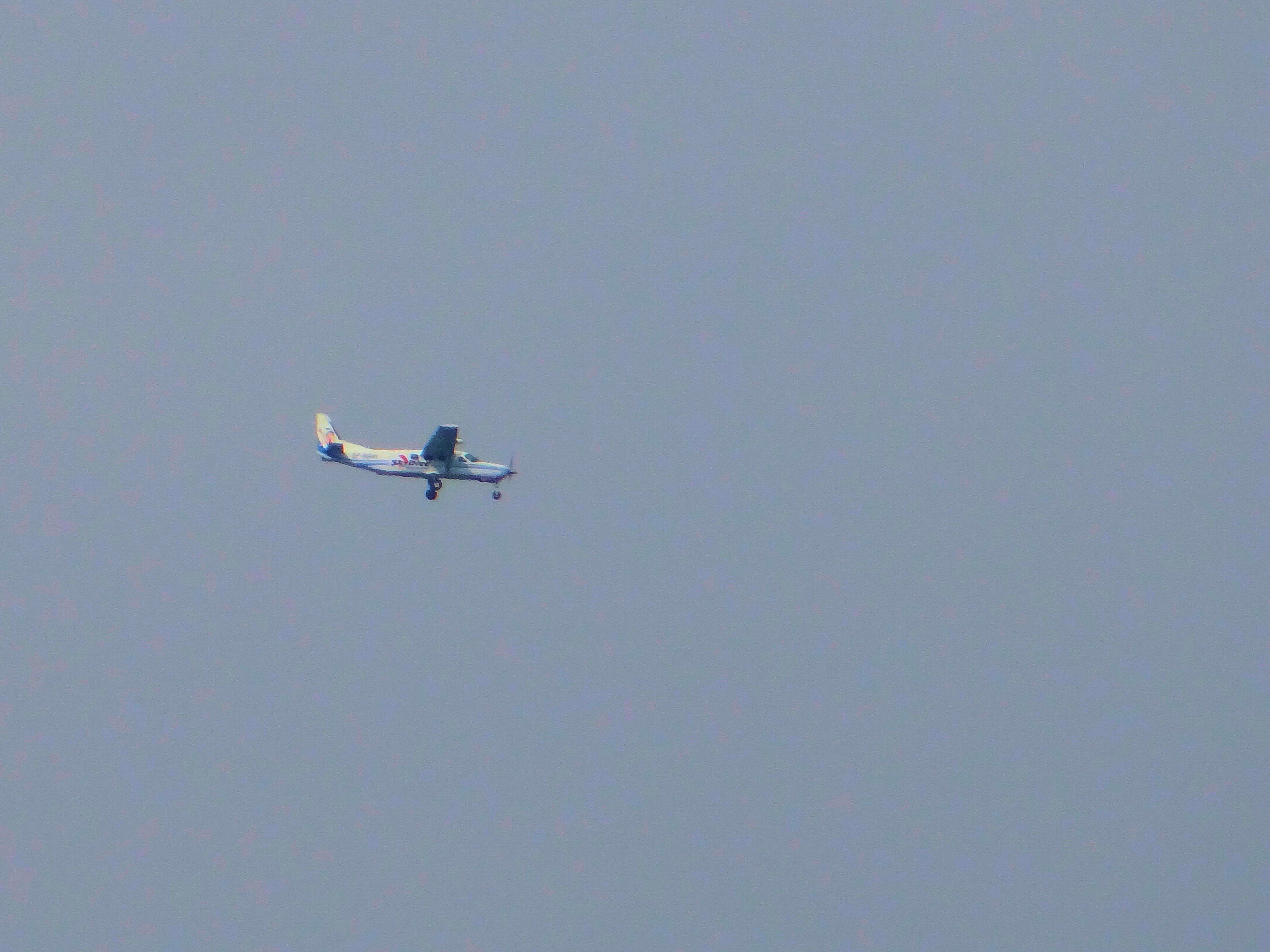 Skydiving in Chrcynno